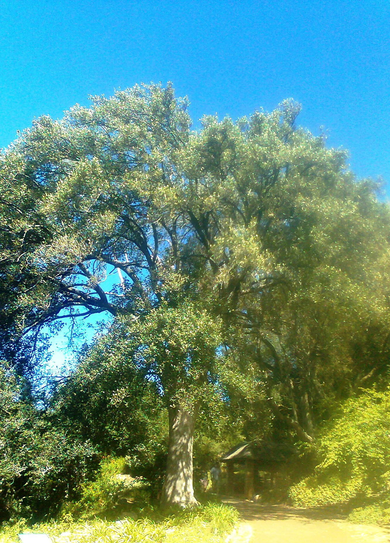 Kiggelaria africana tree - Cape Town